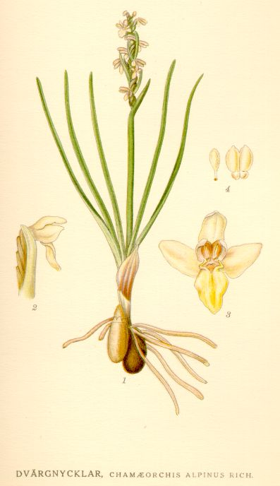 Chamorchis alpina